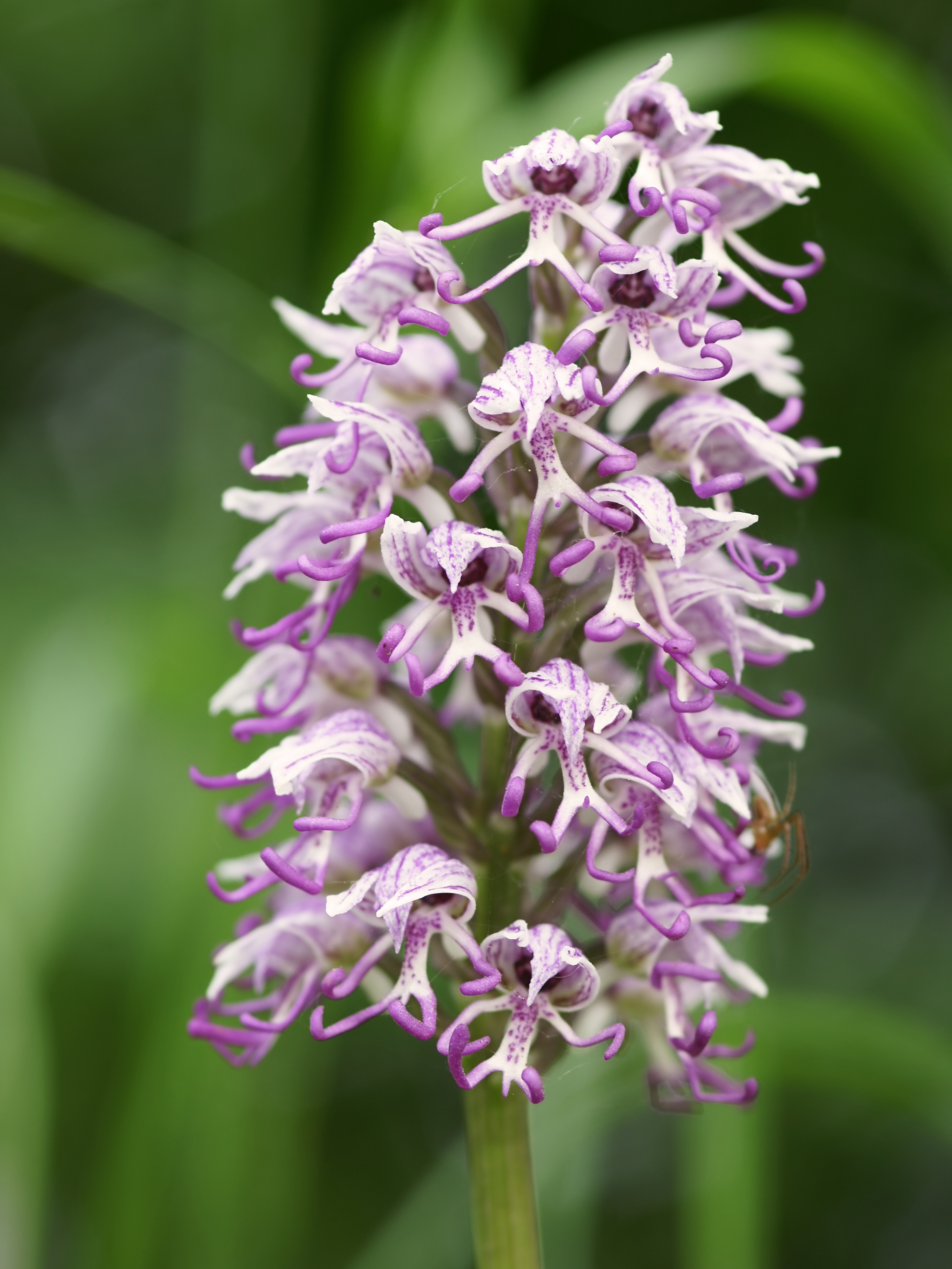 Monkey orchid near Givet, France. Approximate coordinates within a 5 km radius.